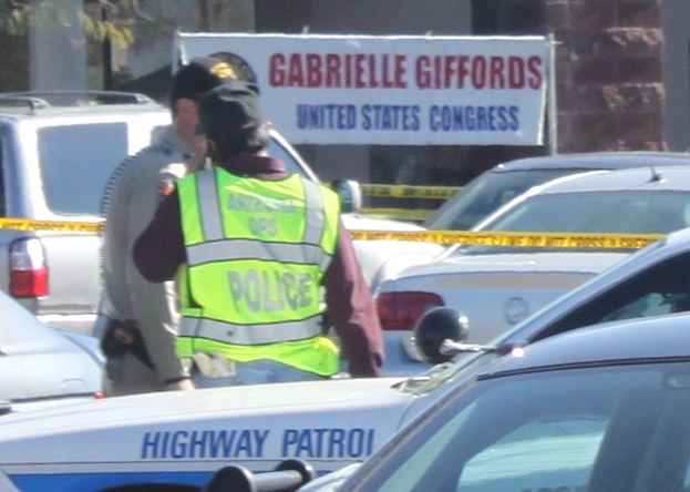 Law enforcement officers investigate the crime scene on January 8. Photo by Steve Karp.